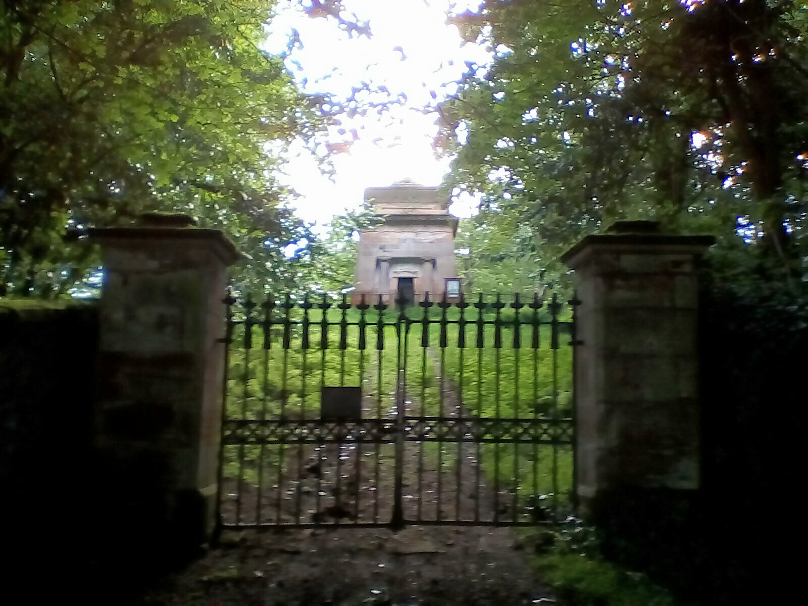 Kelton Mausoleum, Castle Douglas, Kirkcudbrightshire, Scotland. Burial place of Sir William Douglas, founder of the town of Castle Douglas, and family. Built in 1821, attributed to architect Walter Newall of Dumfries.